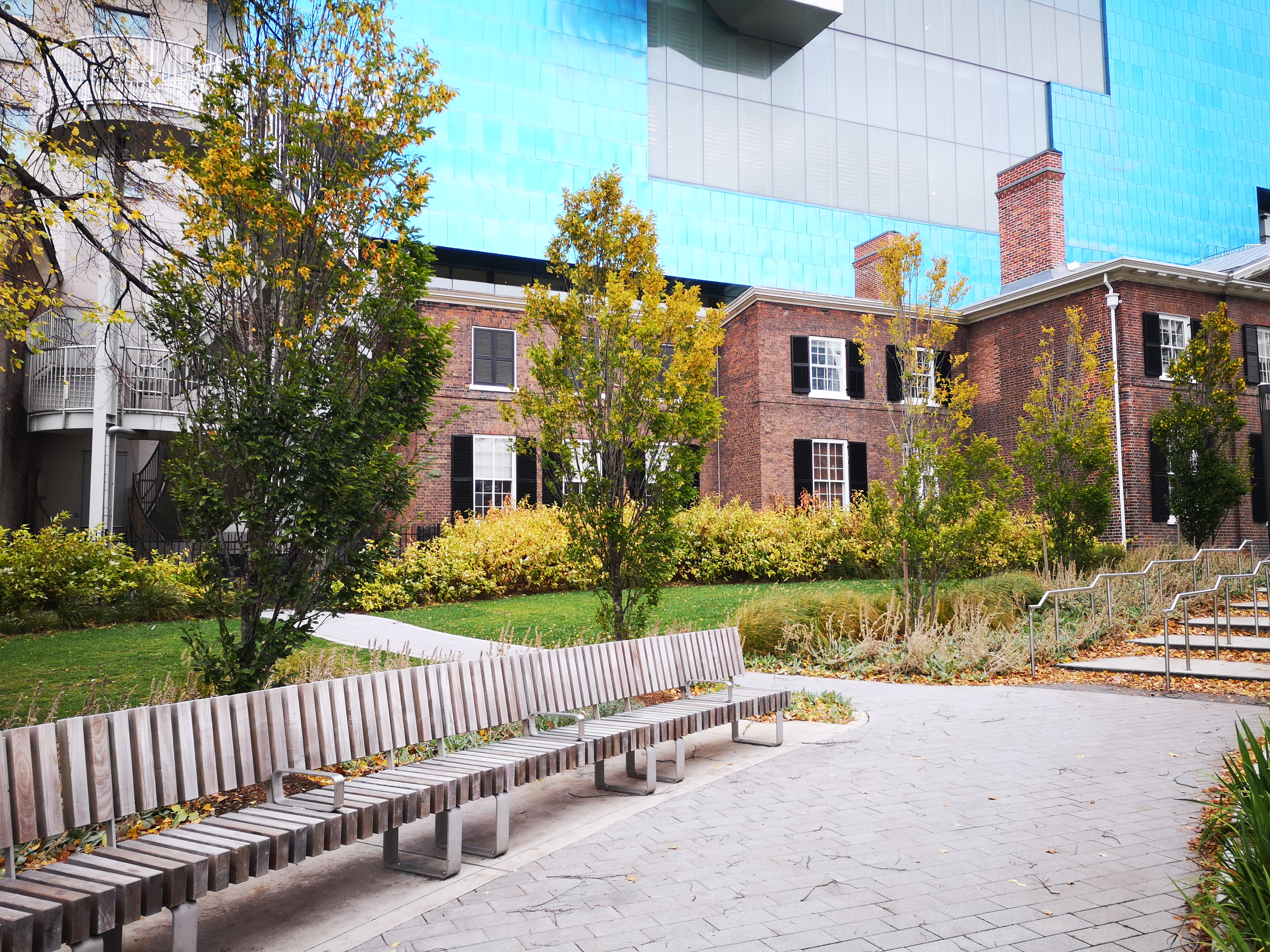 Southern exterior of The Grange's west wing expansion, and the Art Gallery of the Ontario's main building in the background.